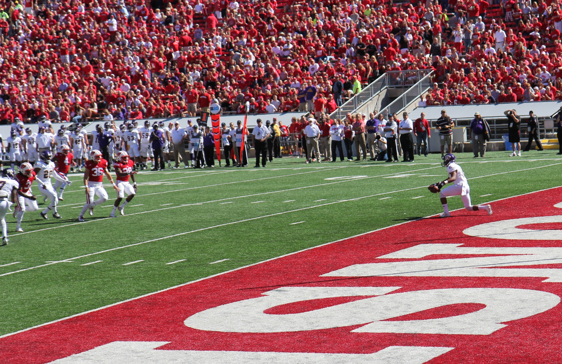 A Western Illinois Leatherneck kick returner takes a knee for a safety in the quick score in football history (1 second elapsed off the clock).